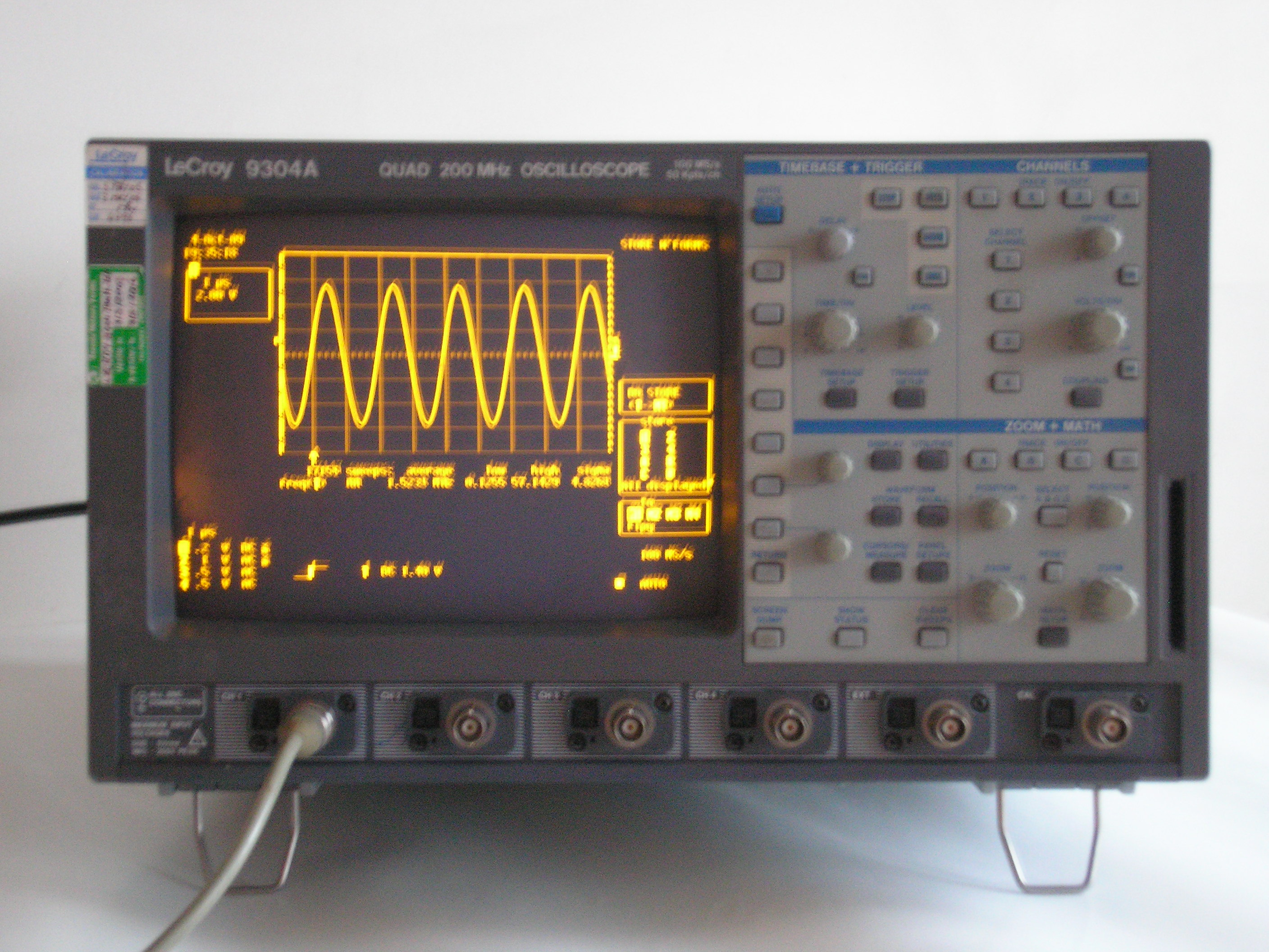 9300 Digitizer LeCroy